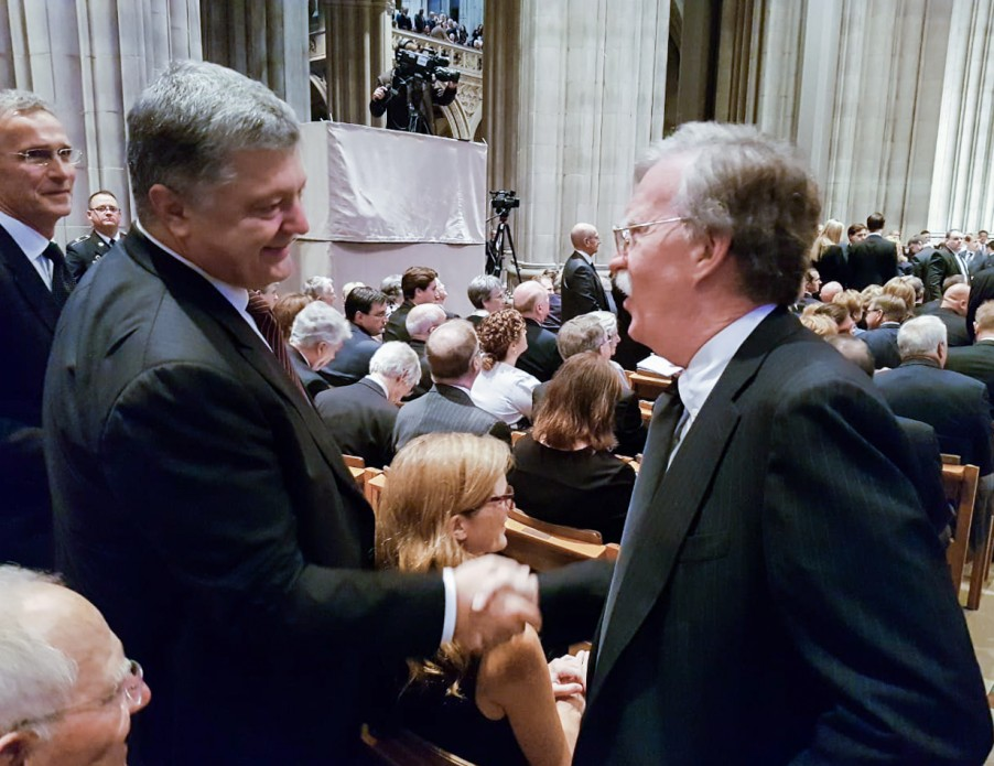 President bid farewell to U.S. Senator John McCain